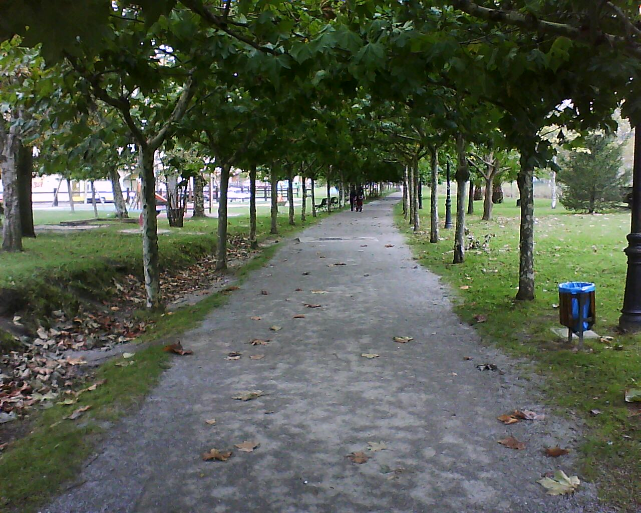 Saron Railway Walkway 2